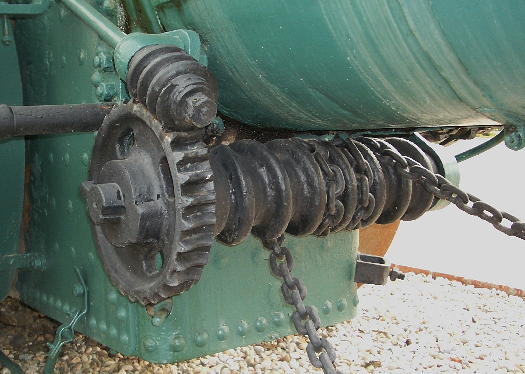 Steam roller Aveling and Porter, about 1902, steering gear